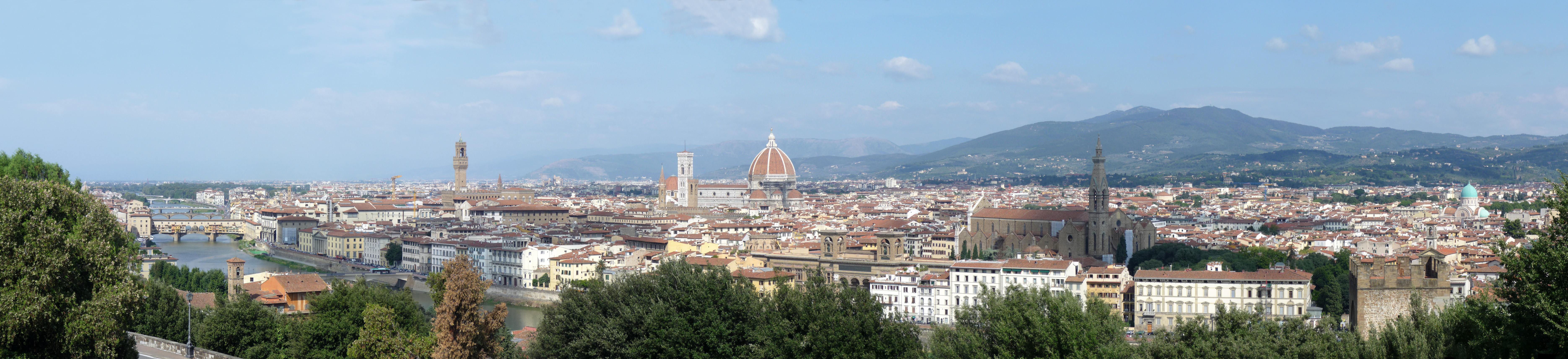 View of Florence (Italy) from Piazzale Michelangelo